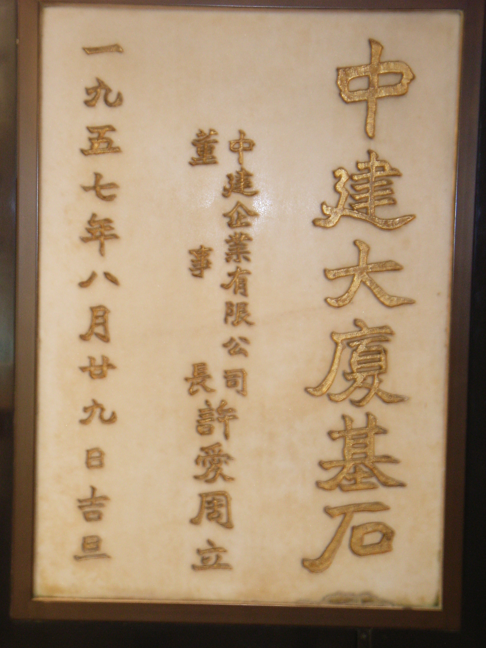 中建大廈, Central Building in Hong Kong which is a famous building in Pedder Street located in the central business district. (Photo author:en:User:Chow Meisy).